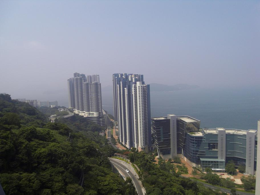 Bird's eyes view of the Bel-Air, shot from Upper Baguio Villa, Hong Kong